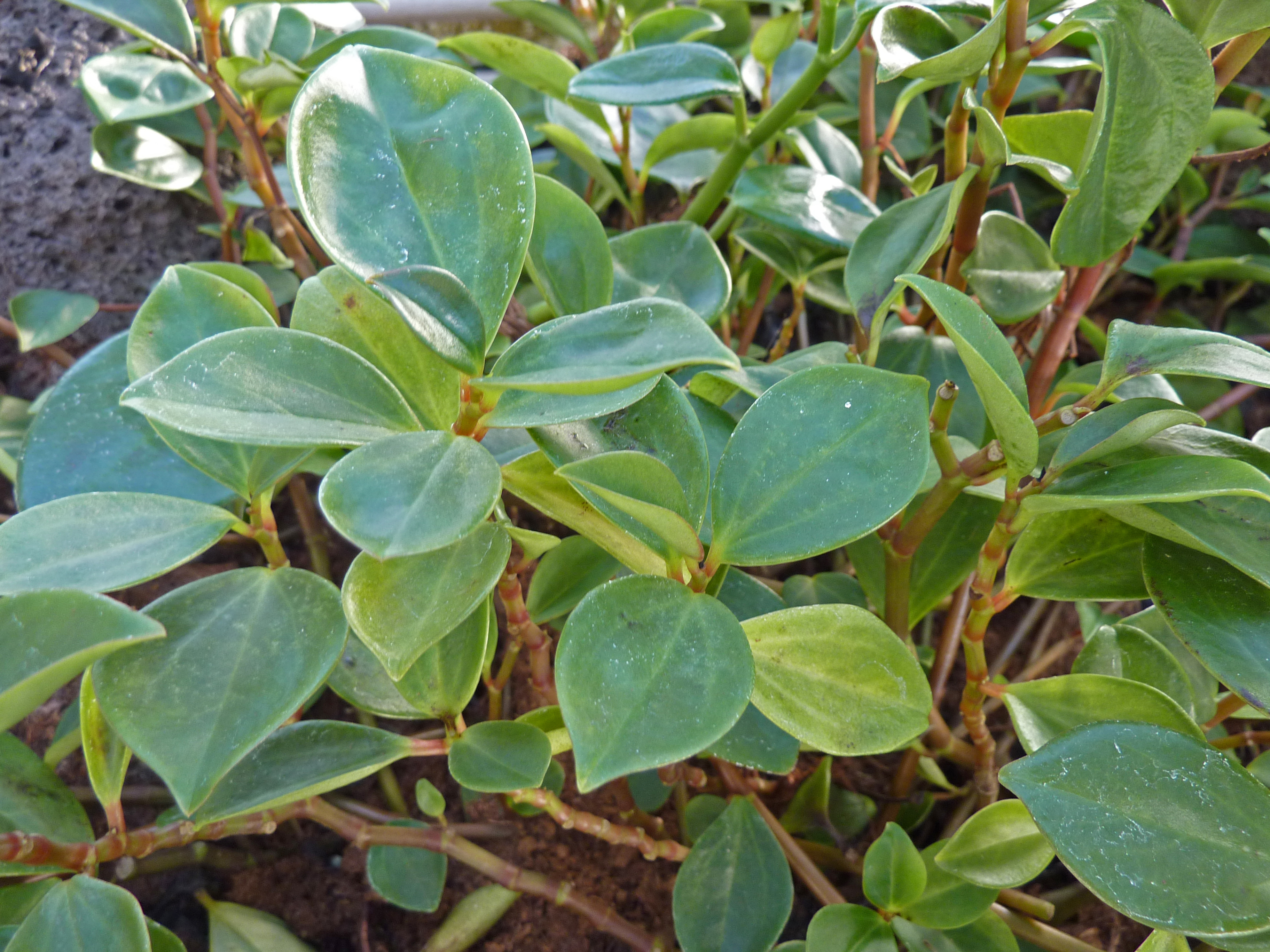 Peperomia hylophila in the Botanical Garden, Berlin